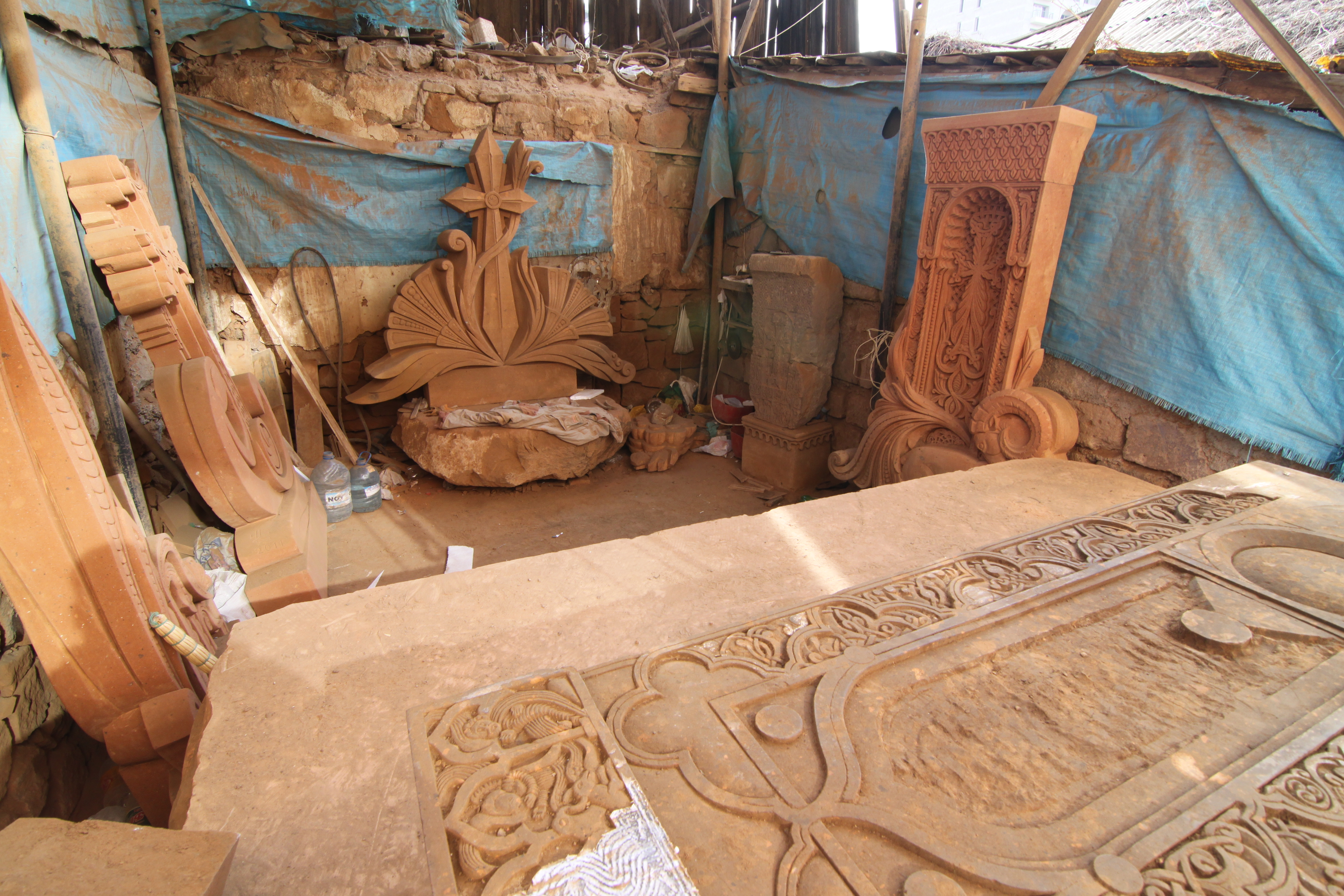 The workshop of a Khachkar master artist in downtown Yerevan.